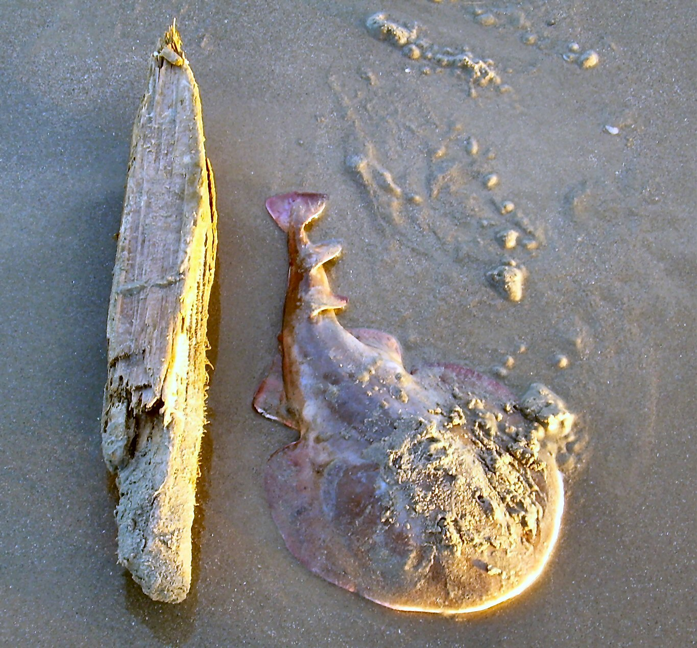 Lesser electric ray (Narine bancroftii) washed up from the Gulf of Mexico.